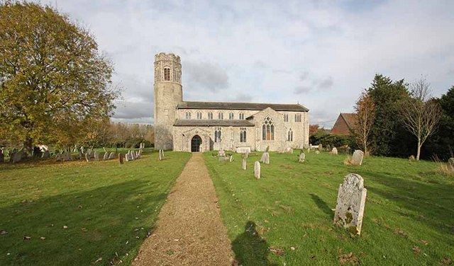 St Andrew, Bedingham, Norfolk